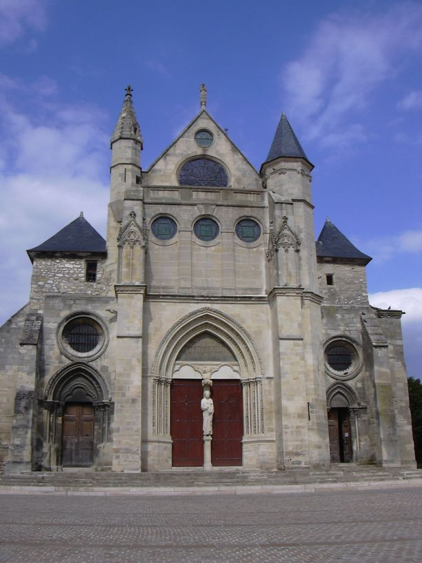 Church of Saints Pierre and Paul in Gonesse (Val-d'Oise, France, 12th and 13th centuries).